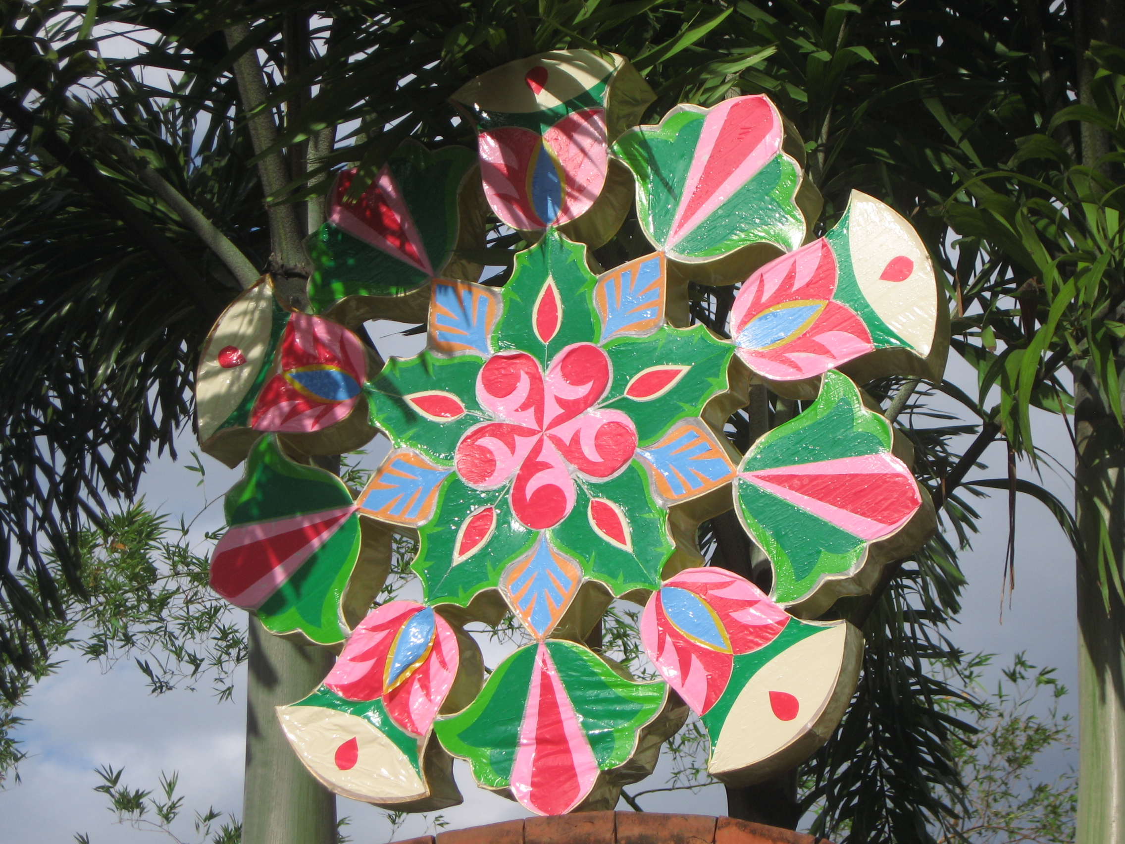 Picture of an electronic parol covered with colored plastic.